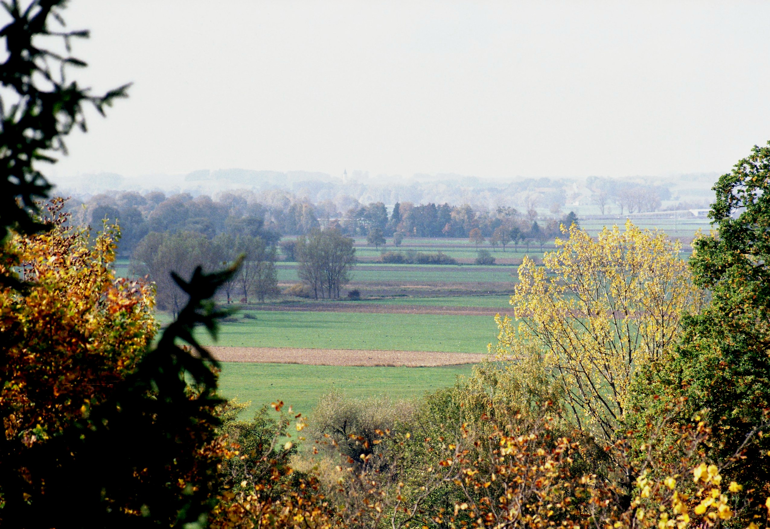 Bergkirchen, landscape